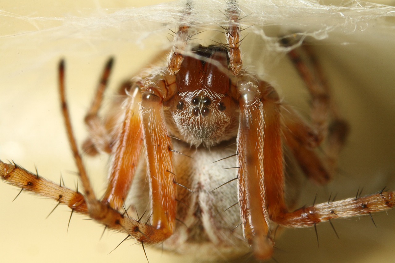 Labyrinth Orb-weaver photographed using a Canon EOS 50D with a Canon 100mm macro lens and 150mm extension tube @ ISO 250, F10, 1/5000 sec, and a Canon 580ex speedlite.